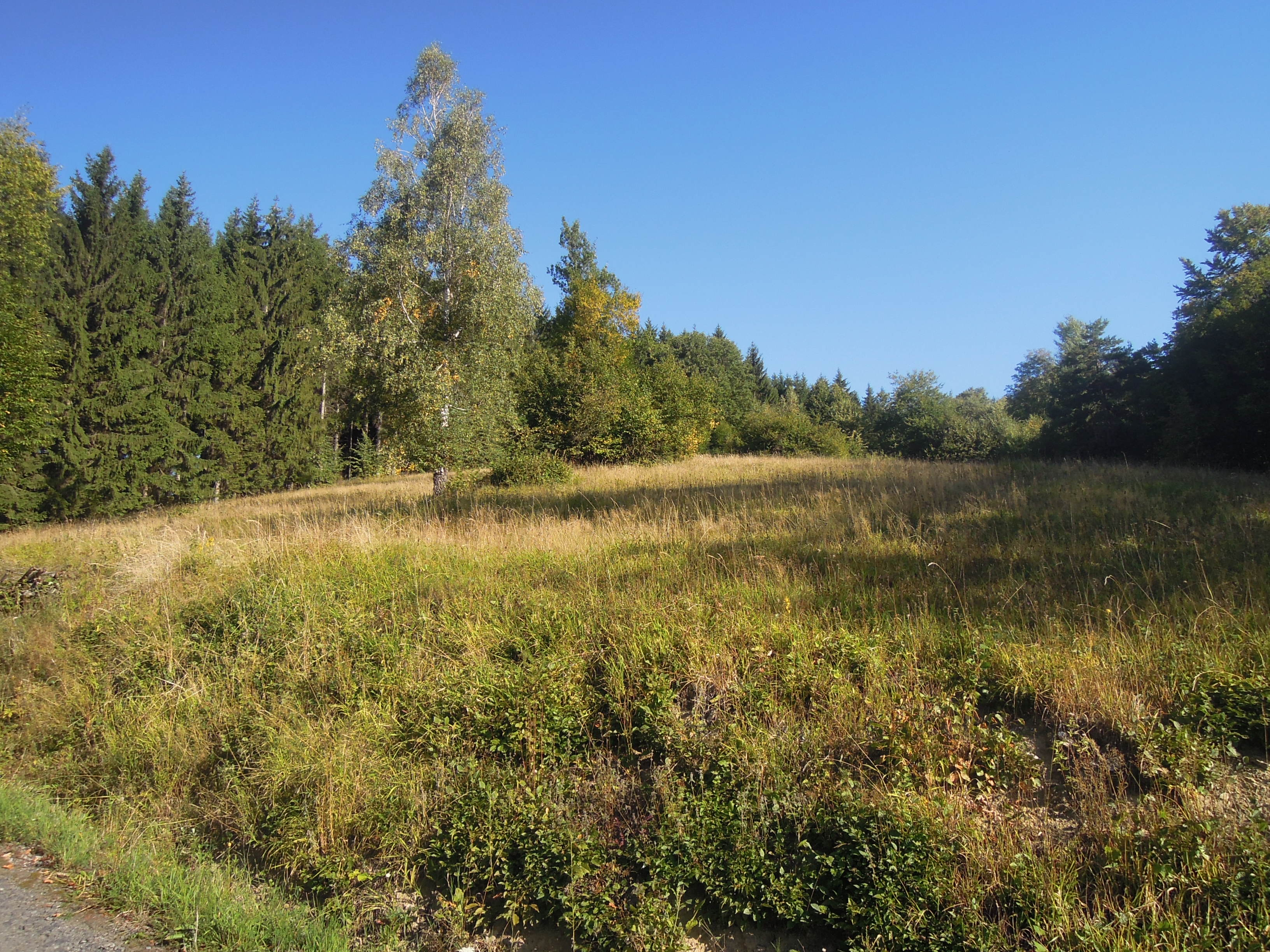 Natural monument Louka pod Rančem in Vsetín, Vsetín District, Zlín Region, Czech Republic